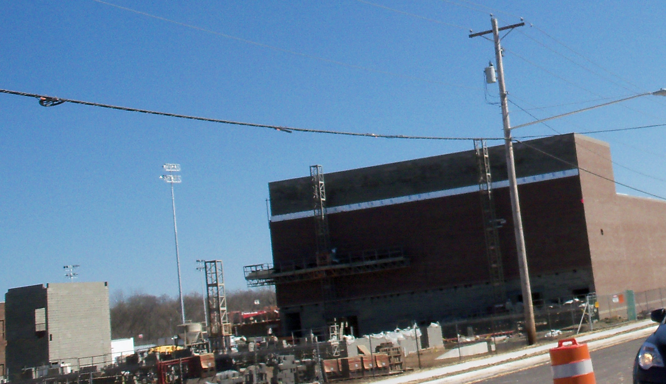 Canton South High School from Route 800